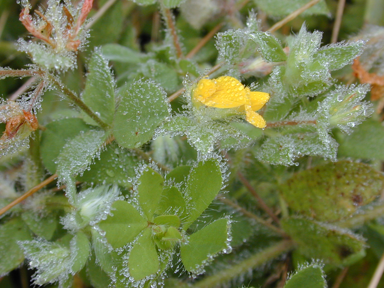 Lotus subbiflorus (flowers). Location: Maui, Polipoli